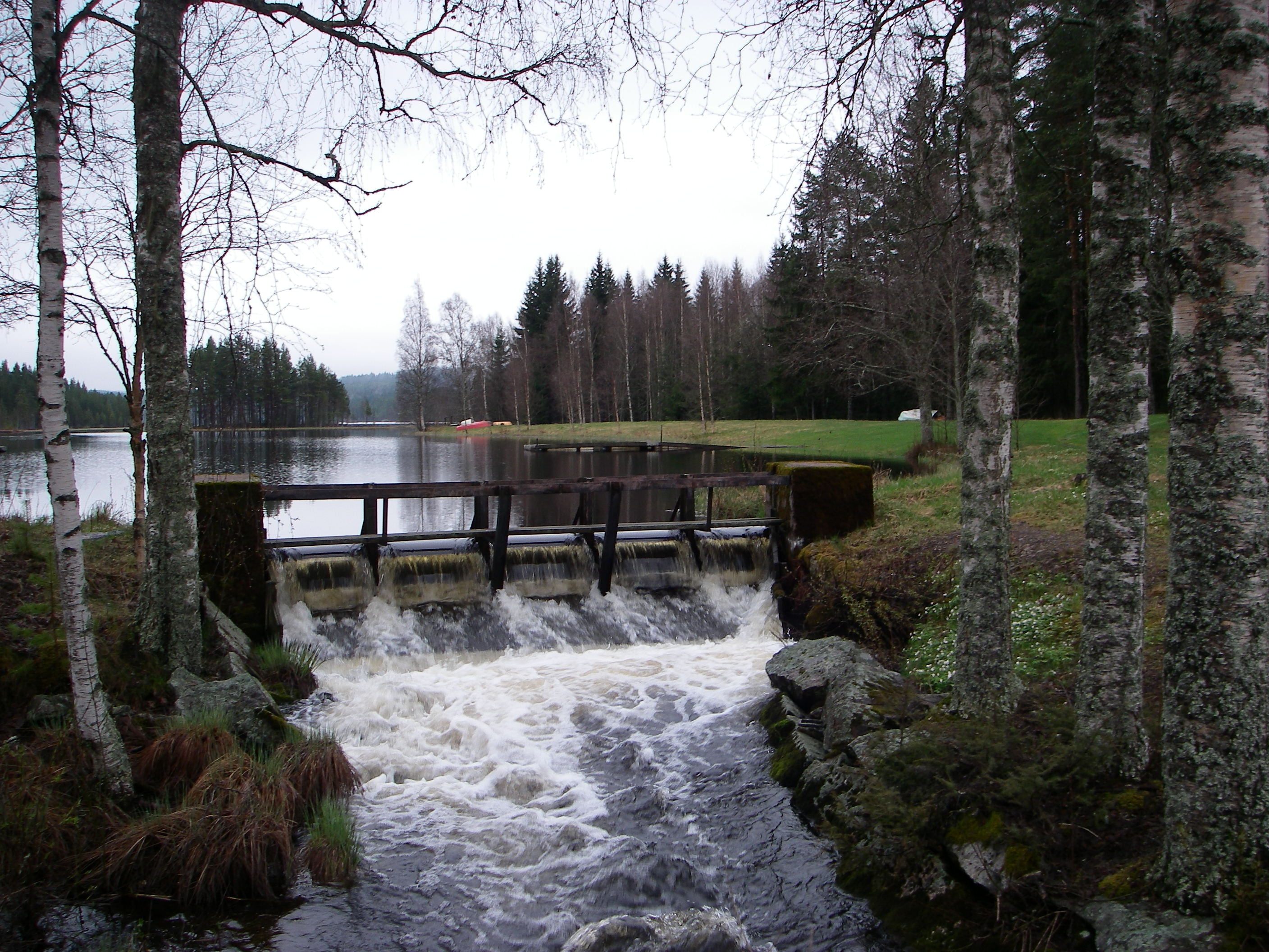 River Helgån where it starts in lake Helgsjön, Dalacarlia, Sweden.